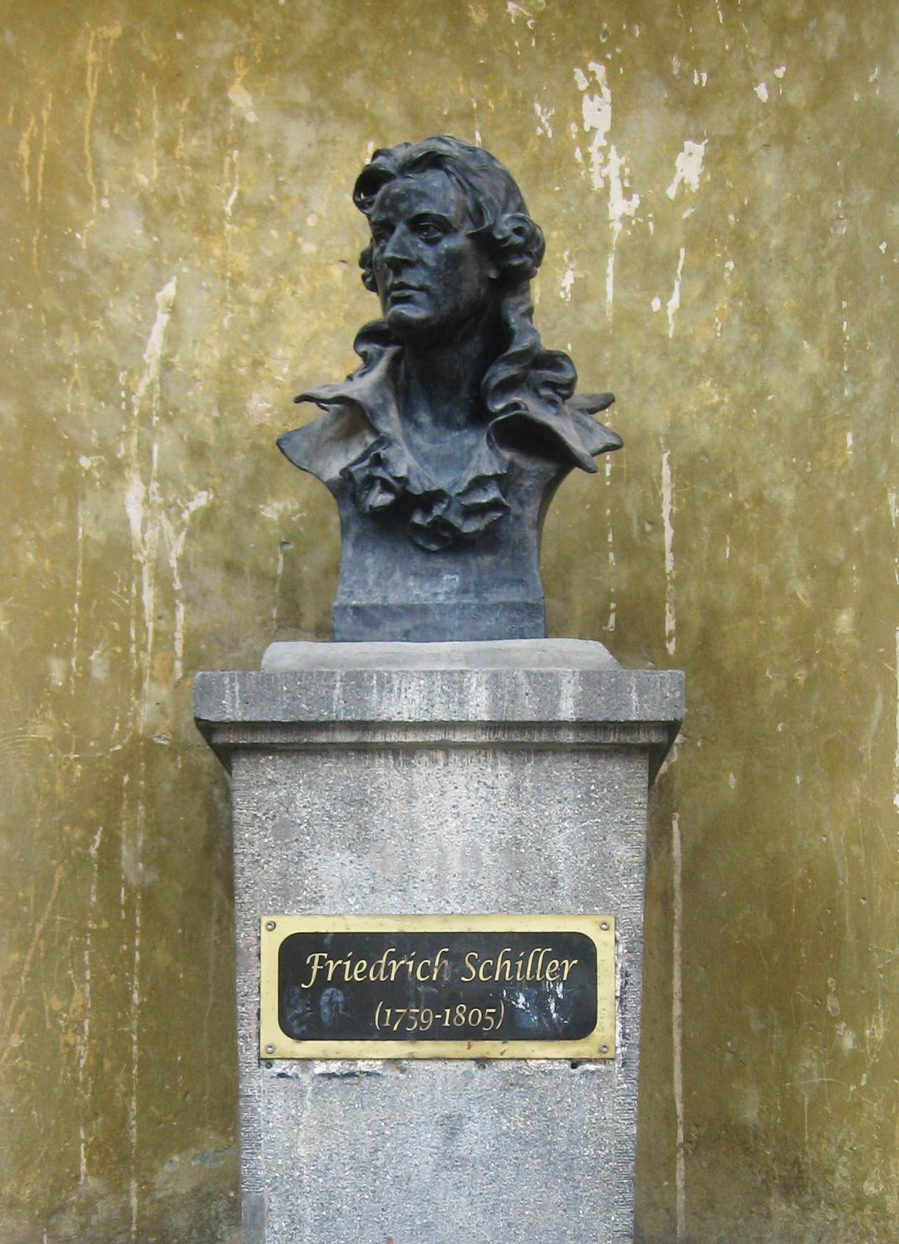 The Statue of Friedrich Schiller in Sibiu